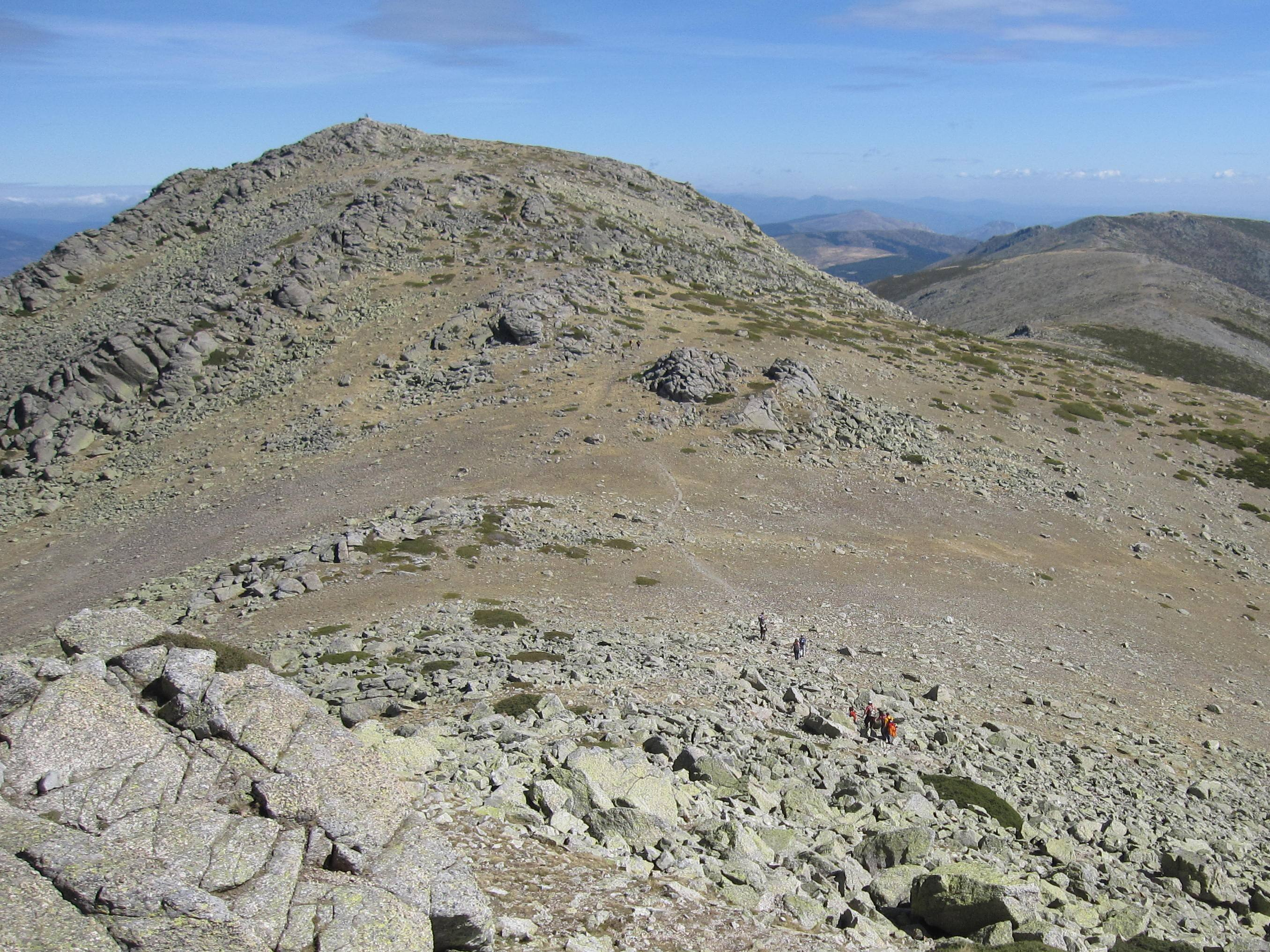 Cabeza de Hierro Mayor seen from CdH Menor (Guadarrama mountain range, central Spain).